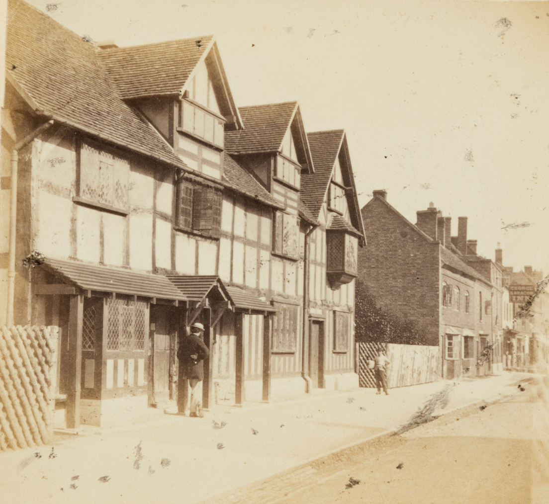 Shakespeare’s birthplace, Henley Street, Stratford On Avon, Ernest Edwards, 1863, from albumen print